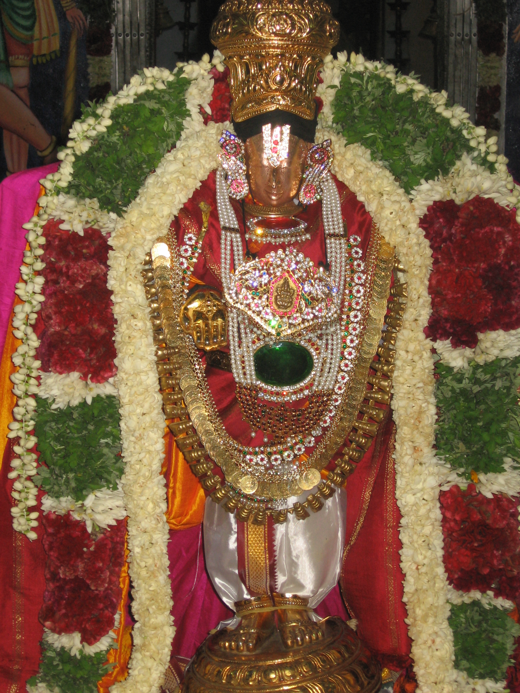 one of the Vishnu idol at Srivilliputtur.